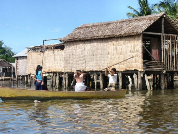 Houses in Venezuela.